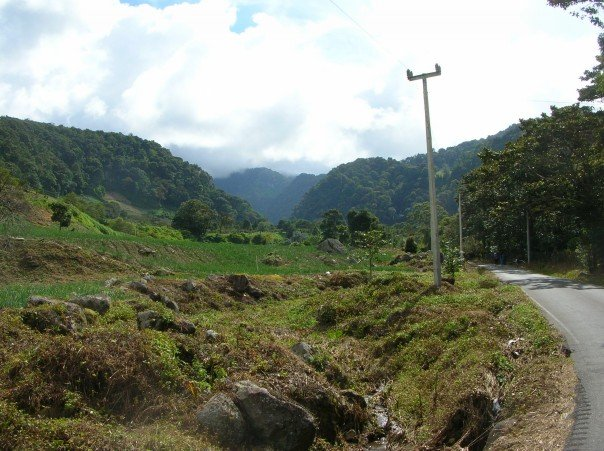 Road on the outskirts of Boquete leading to Volcan Baru national park.